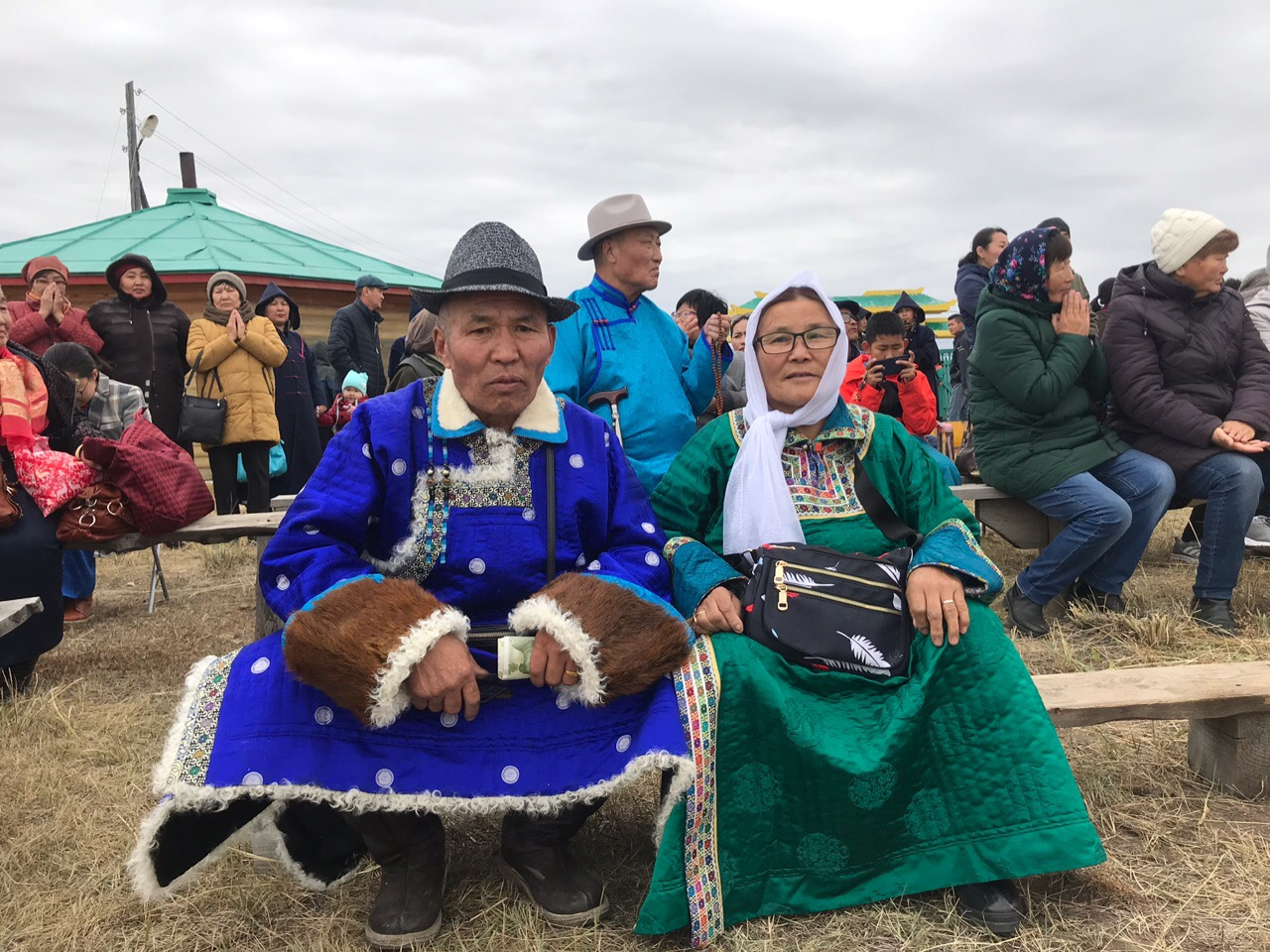 Üzemchin Mongols in Buryatia